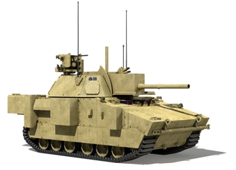 Artists impression of XM1204 NLOS-M